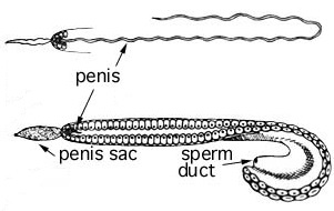 Ocythoe tuberculata hectocotylus Top image: Tip of hectocotylus with the penis-sac collapsed and penis extended. Bottom image: Detached hectocotylus with most of the penis in the penis-sac and just the tip of the penis emerging. Note the opening of the sperm duct at the opposite end of the arm.